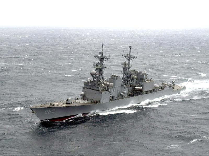 South China Sea (Apr. 11, 2001) -- Aerial view of the U.S. Navy Spruance class destroyer USS Cushing (DD 985) which is homeported in Yokosuka, Japan. U.S. Navy Photo by Photographer's Mate 2nd Class Dennis Cantrell. (RELEASED)